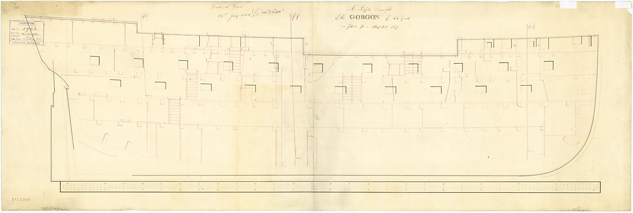 Gorgon (1785) Scale: 1:48. Plan showing the inboard profile for Gorgon, a 44-gun Fifth Rate, two-decker, as fitted as an Hospital Ship at Woolwich Dockyard. Signed by Edward Sison [Master Shipwright, Woolwich Dockyard, 1801-1816]. GORGON 1785